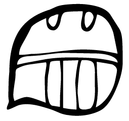 Maya:glyph:logogram:calendric:Tzolkin:Day13:Ben:codex+W:v01. Img created by CJLL Wright.